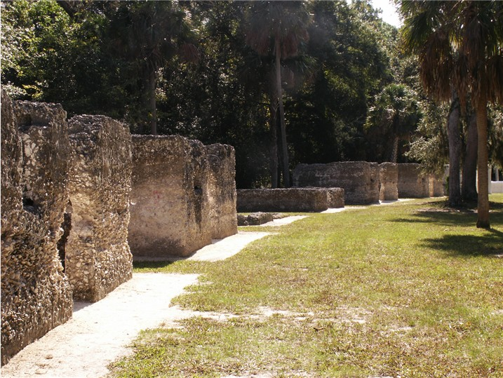 The ruins of the slave houses at Kingsley Plantation, Florida, USA. The houses consisted of two rooms sized approximately 8' x 10', 2 doorways, 4 window openings and a large brick fireplace for cooking and heat. They were built in a semicircle about 1/4 of a mile from the owner's house. The houses were constructed of tabby: a mixture of oyster shell, lime, sand, dirt, and water. They would have been covered in lime plaster to give it a whitewashed adobe look. The roof would have been wooden shingle or palmetto frond, and the door wood as well. There would have been fabric only if that, covering the windows. Floors would have been sand. The National Park Service restored the largest slave house at Kingsley to what it looked like when the plantation was functioning (see associated photo in article). They are located at the main entrance to the park. There are approximately 23 ruined slave houses at Kingsley. Since before the park's induction into the National Park Service and after, the slave houses have been vandalized with various messages or initials. The tabby is very soft and the houses are irreparably damaged by the vandalism. This photo was taken at Kingsley Plantation in 2006.